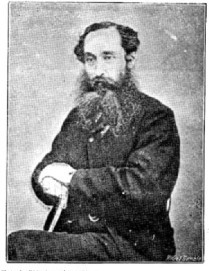 Sir Edward William Stafford, served as Premier of New Zealand on three occasions in the mid 19th century.